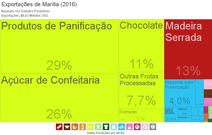 Mainly Exportation Products by the city of Marília, Brazil